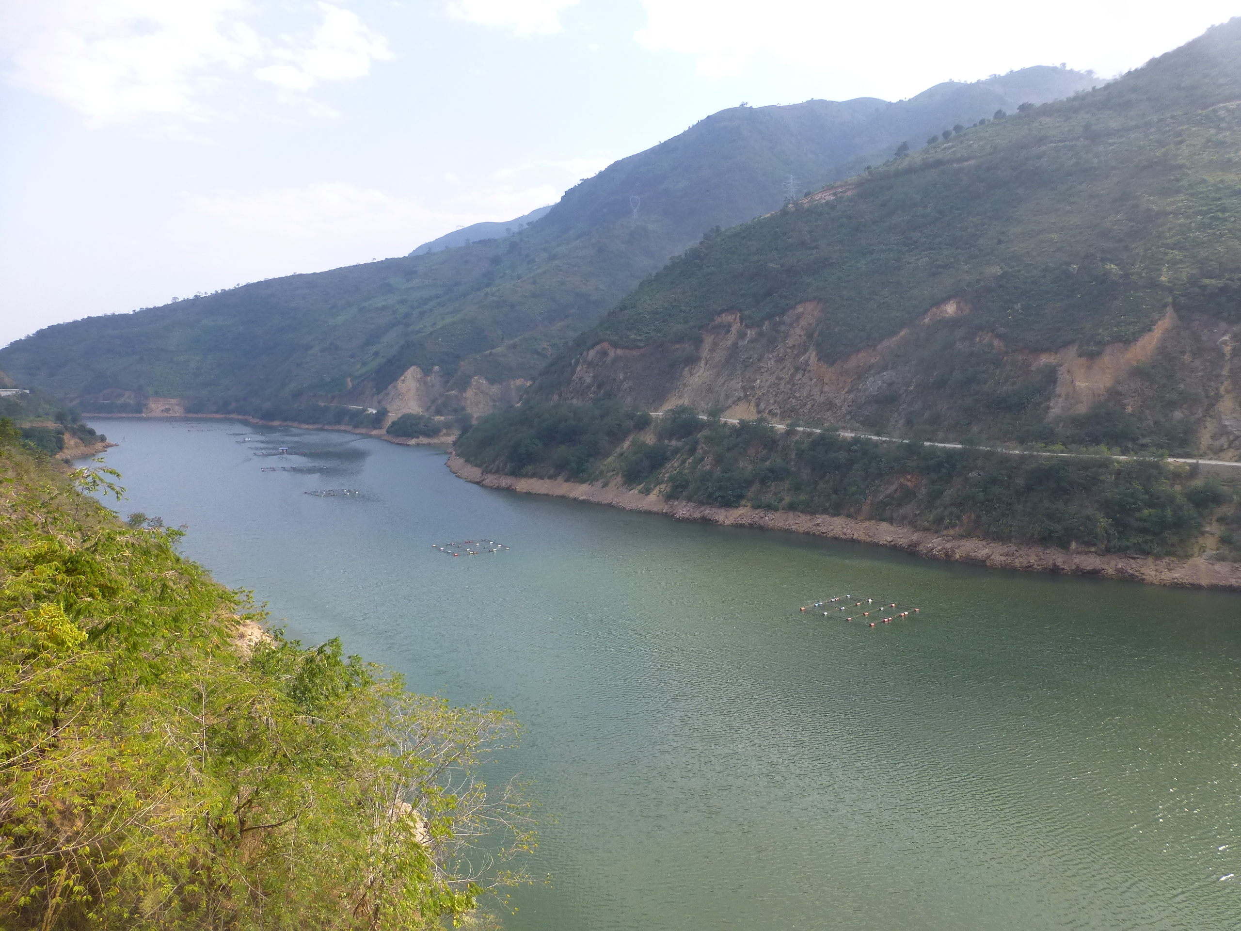 In the Red River Valley on Hwy X102 in Gejiu county-level city, between Xiaomanti Village and Manban Bridge. This side of the Red River (or, actually, Madushan Reservoir) in Gejiu, the opposite (SW) side, in Yuanyang County (Fengchunling Township).